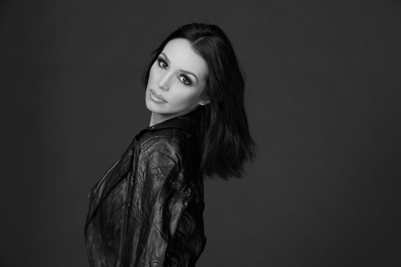 Scheana Shay, 2017